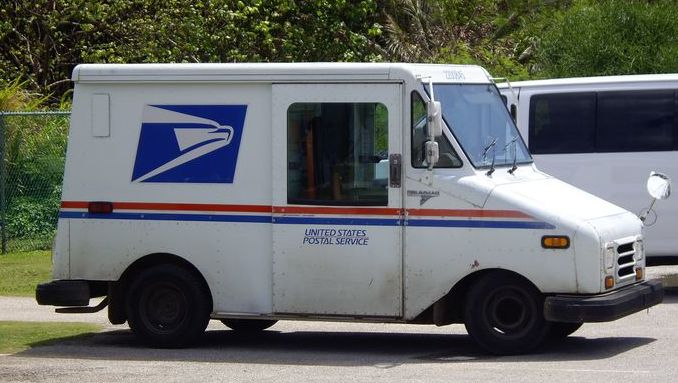 A small United States Postal Service truck seen in Guam.